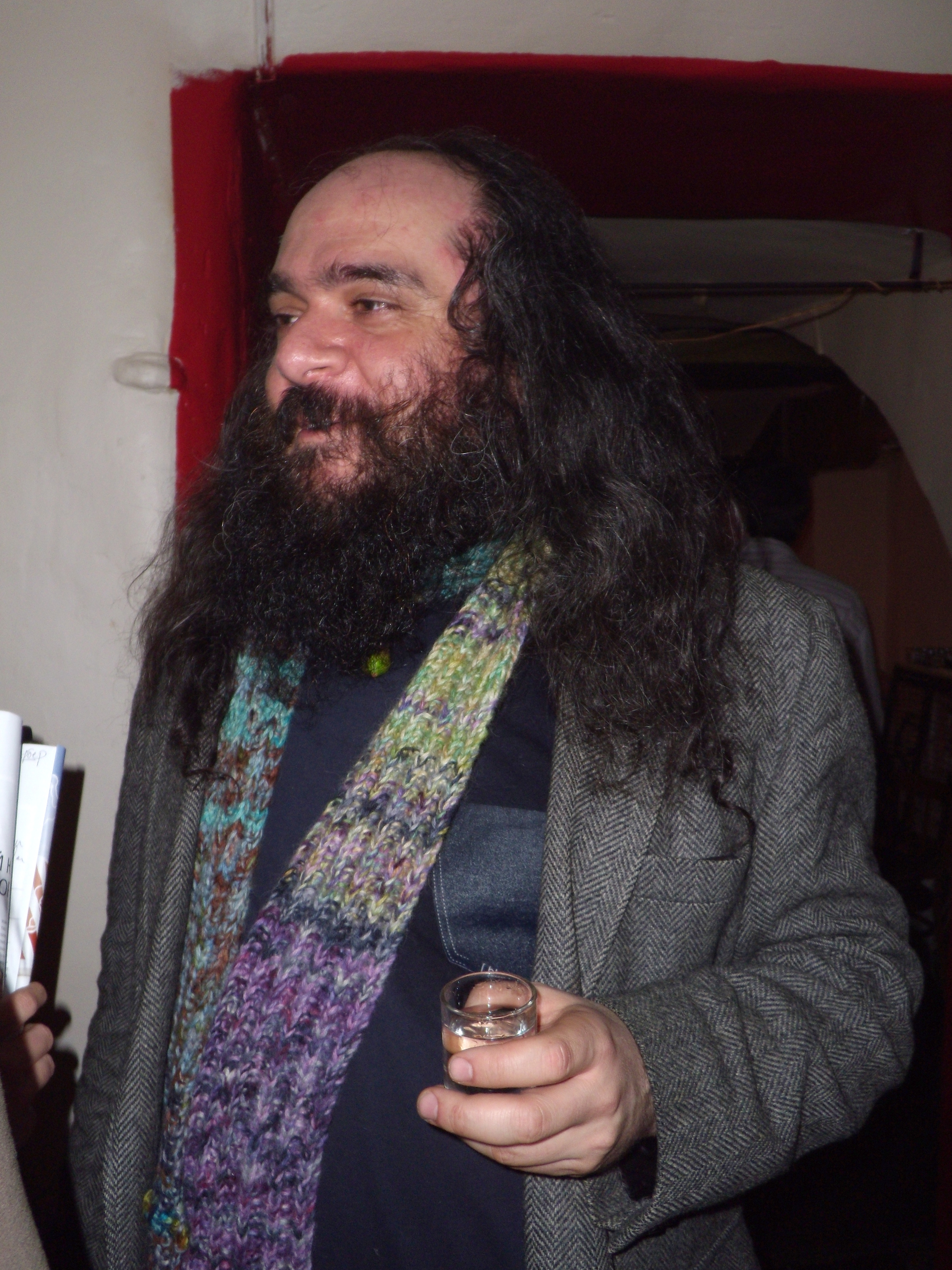 Psoy Korolenko